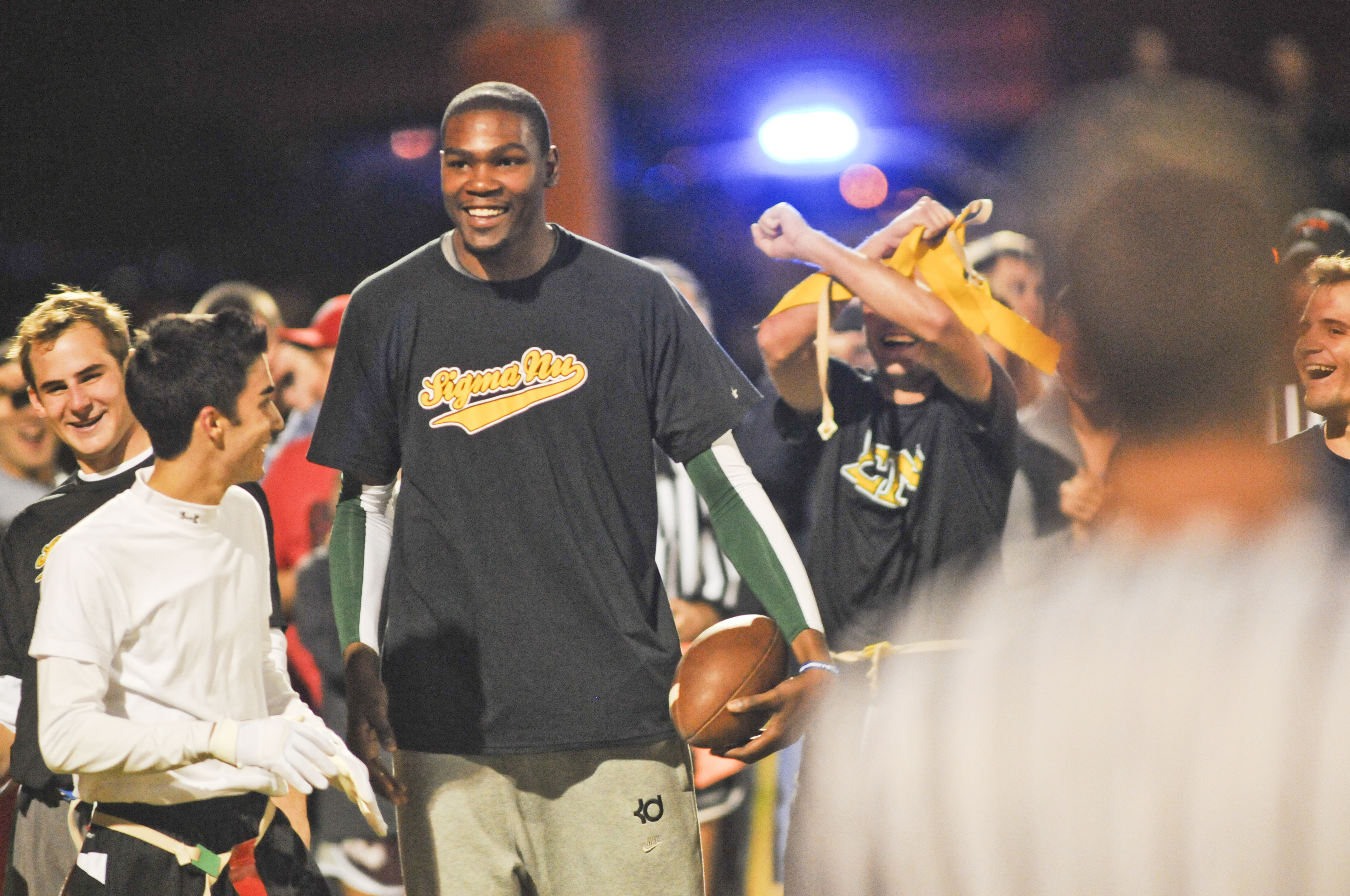 Oklahoma City Thunder star and Washington, D.C. native, Kevin Durant, came to Oklahoma State unannounced to play an intramural flag football game. Kevin Durant played for the Sigma Nu team in a victory on Monday night.